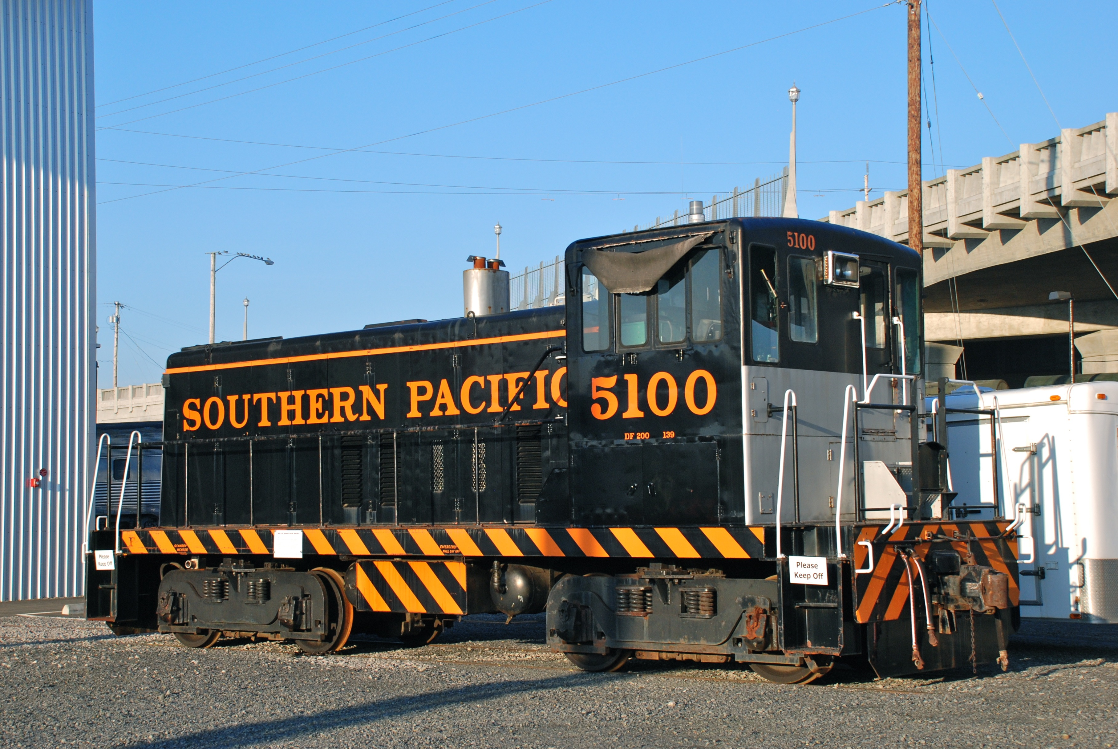 Former Southern Pacific 5100, a GE 70-ton switcher, on display at the Oregon Rail Heritage Center, in Portland, Oregon.